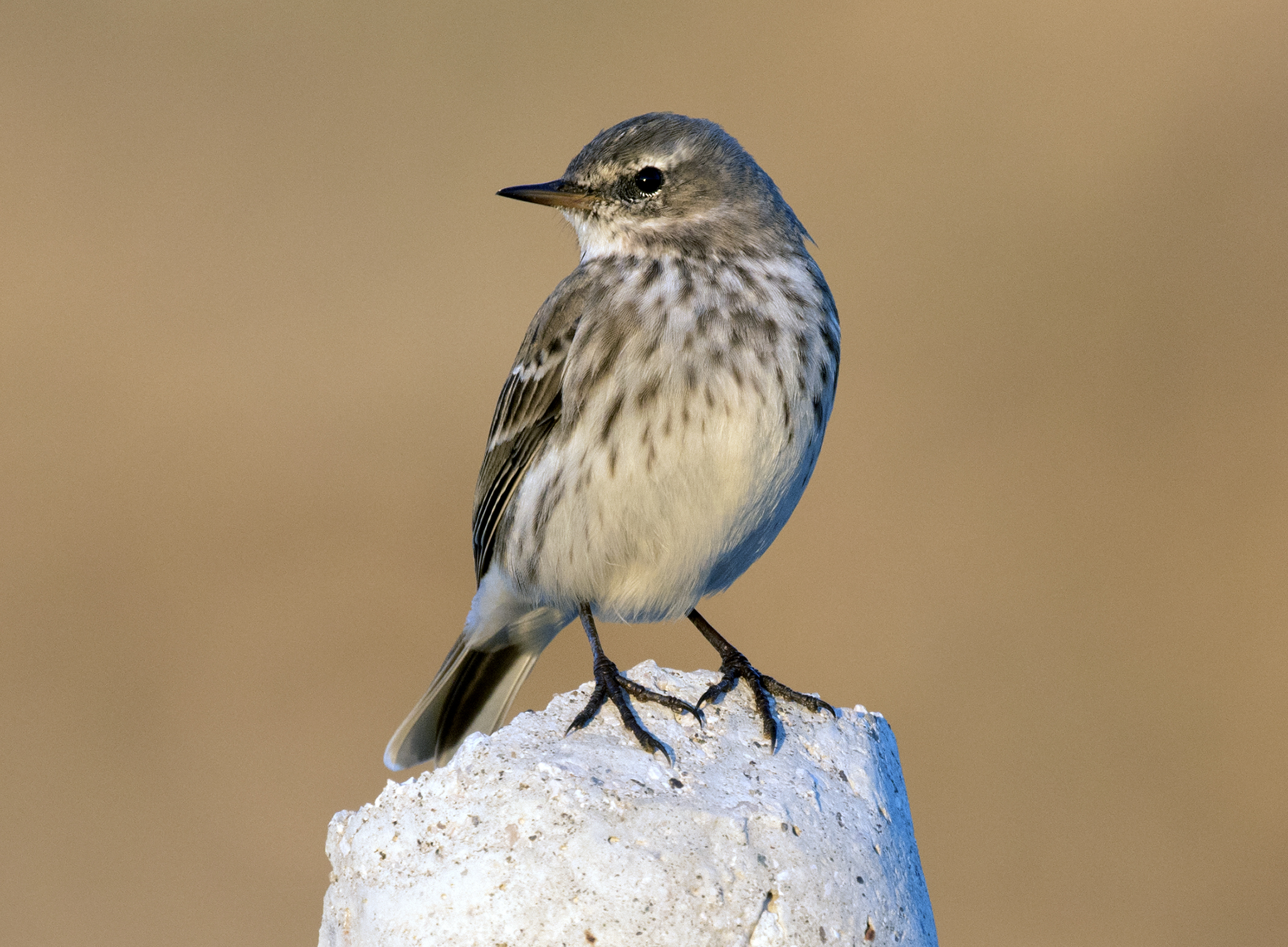 Water Pipit (Anthus spinoletta) in Afşar Village, Kahramanmaraş - Turkey.